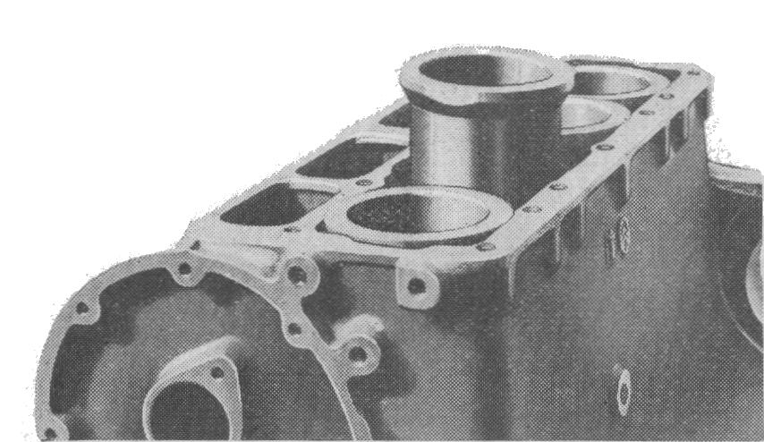 Wet liner engine (Autocar Handbook, 13th ed, 1935).jpg